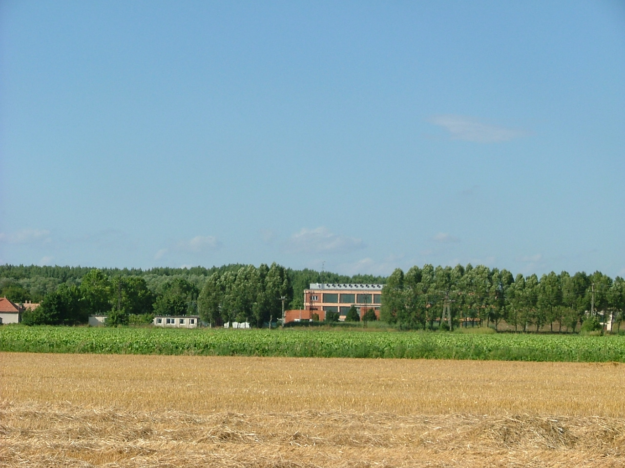 Kisbajcs, water plant in Szőgye